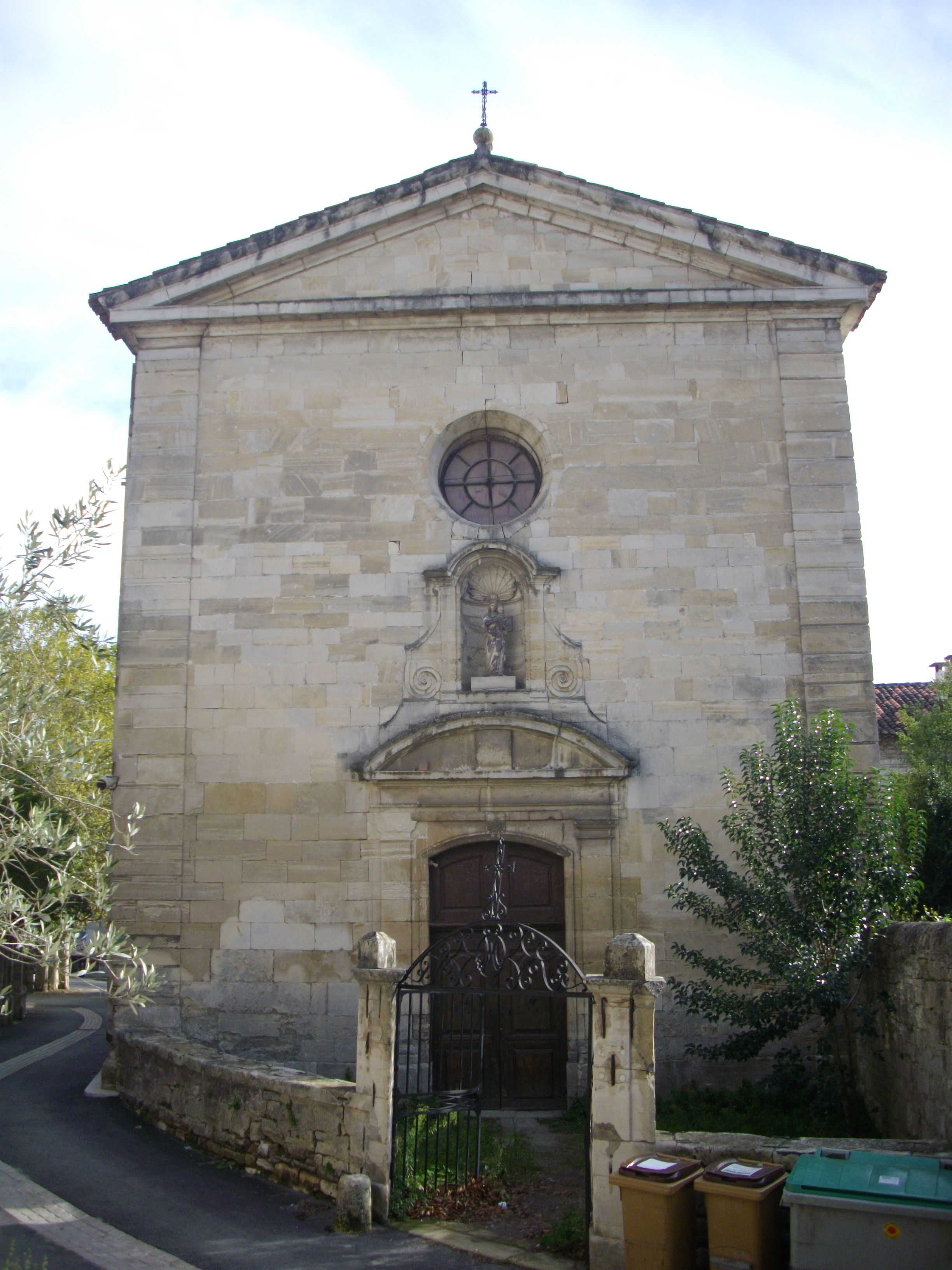 Barjac (Gard, France) : convent of Capuchins